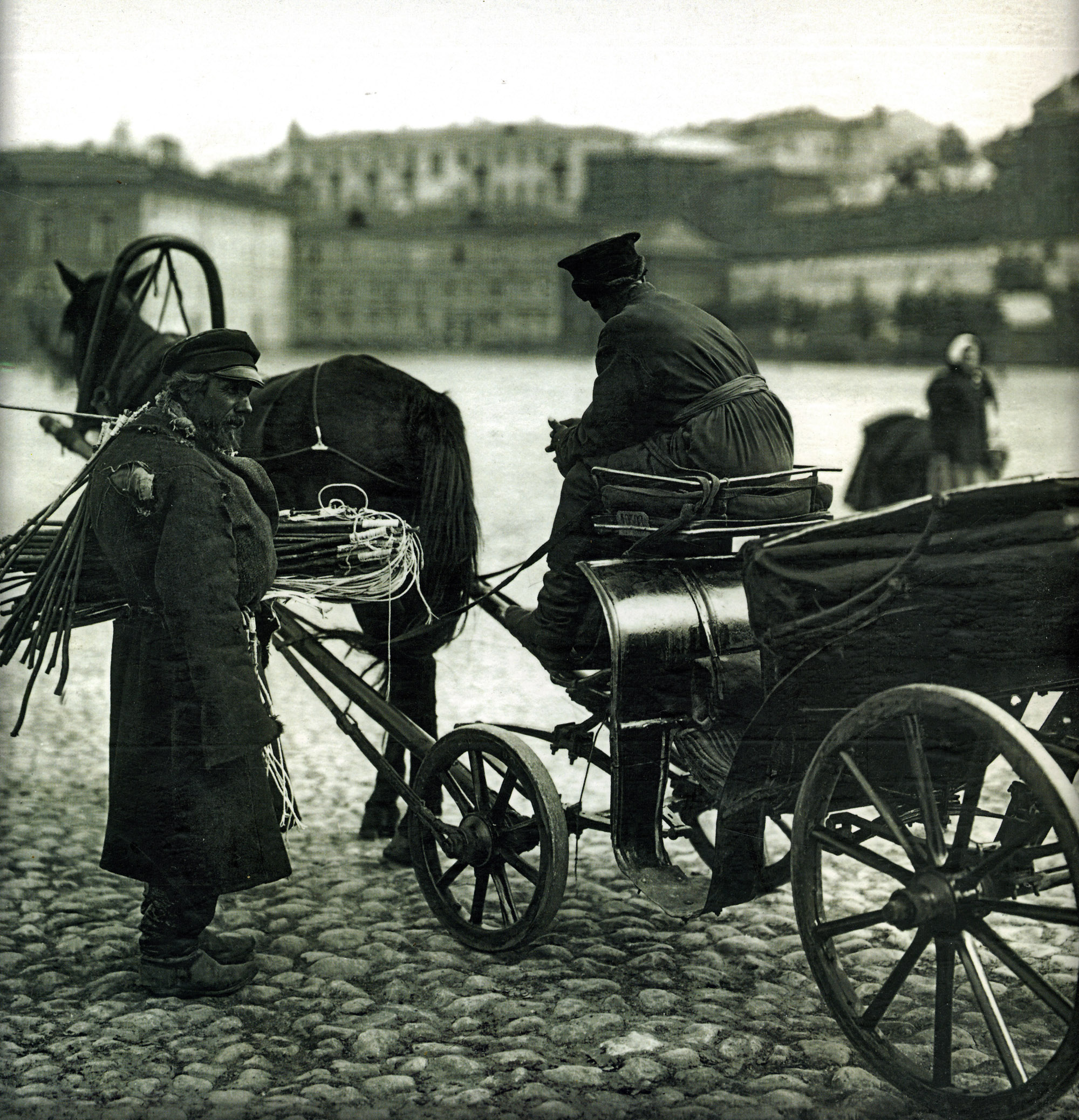 The Coachman (right) and the Whip Seller (left) - Moscow, 1896